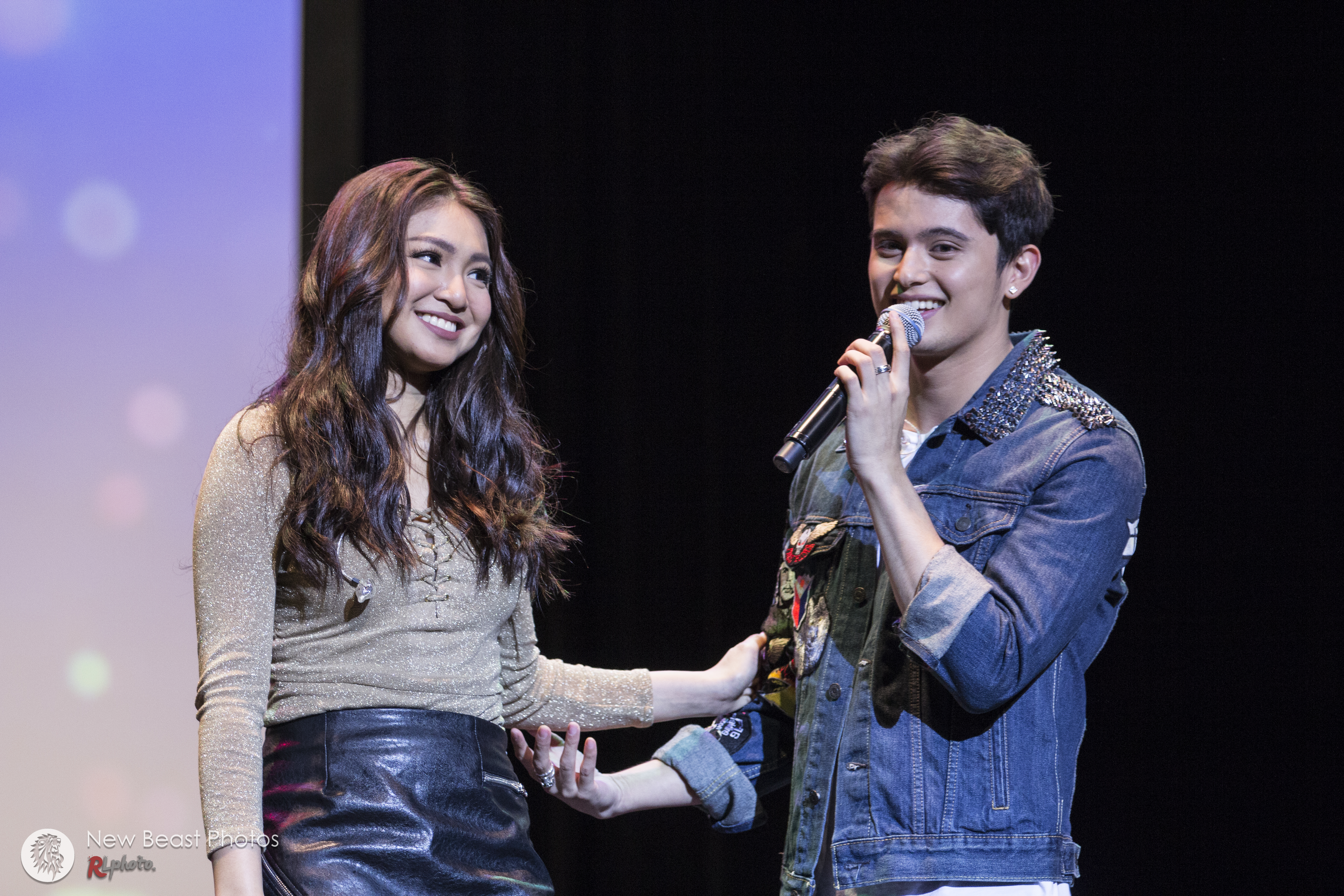 James Reid & Nadine Lustre "High on Love Canada Tour 2016" Winnipeg.